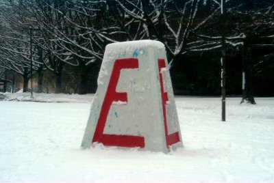 The Cairn at UBC painted white with a red 'E' for engineering. Can be found here (link not available 23/07/2014)